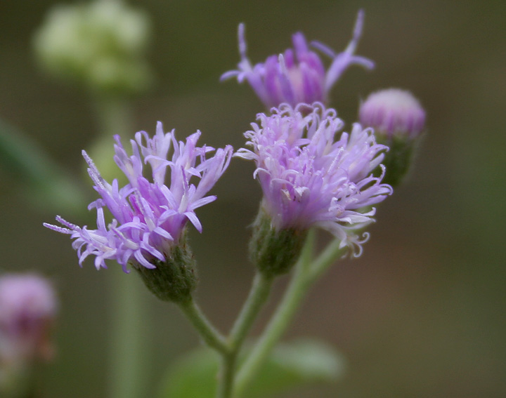 Ash Fleabane Vernonia cinerea in Talakona forest, in Chittoor District of Andhra Pradesh, India.